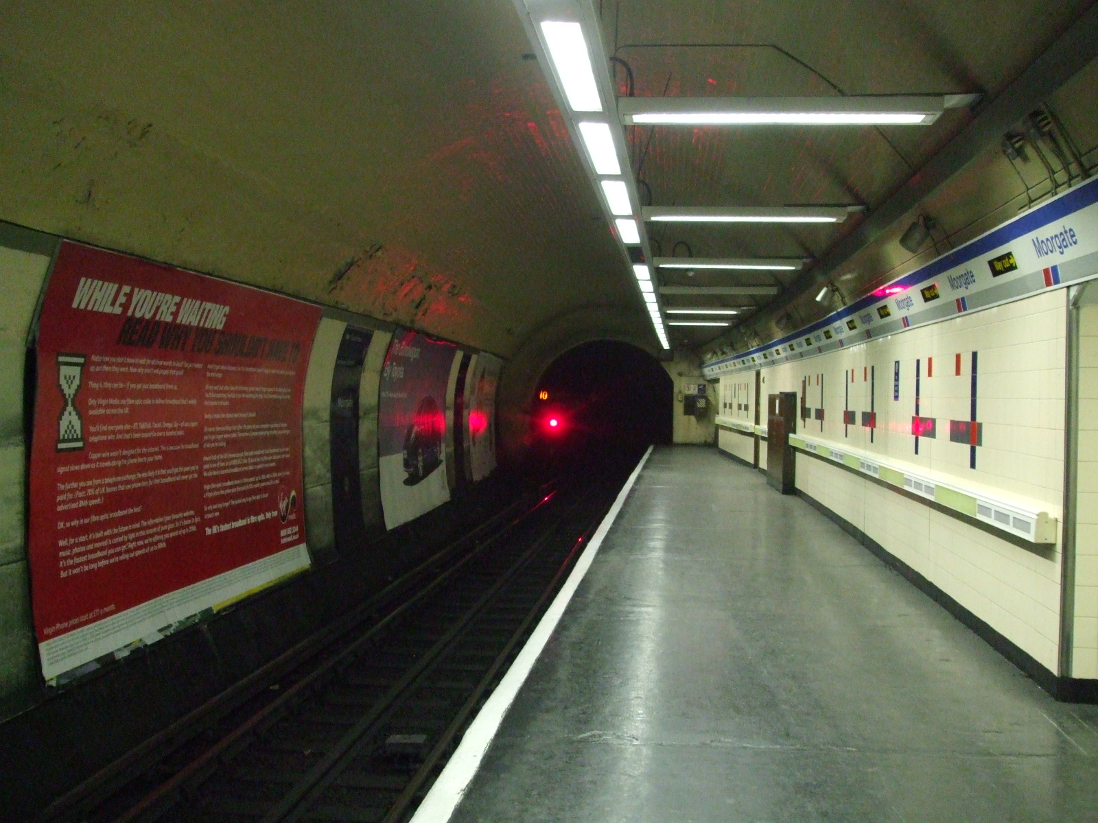 Moorgate station Great Northern (First Capital Connect) northbound platform looking north. Ahead can be seen the start of the 16 ft (mainline) diameter tube tunnel to Finsbury Park, built in 1904.